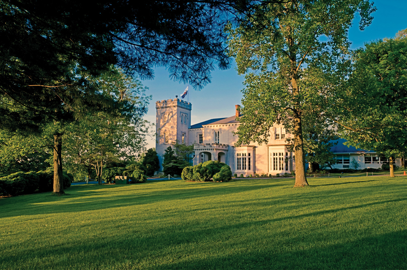 An 18th century, historic Manor House, located on Glenelg Country School's campus in Howard County, Maryland.